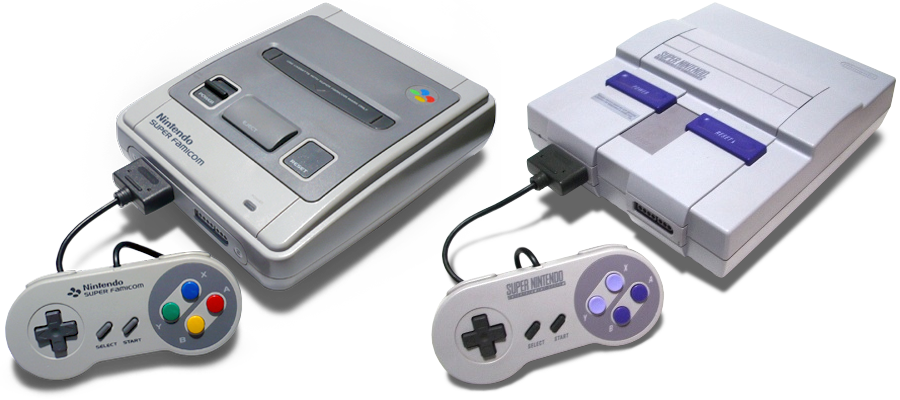 Nintendo Super Famicom (SHVC-001) with controller (SHVC-005) & Super Nintendo Entertainment System, North American version.